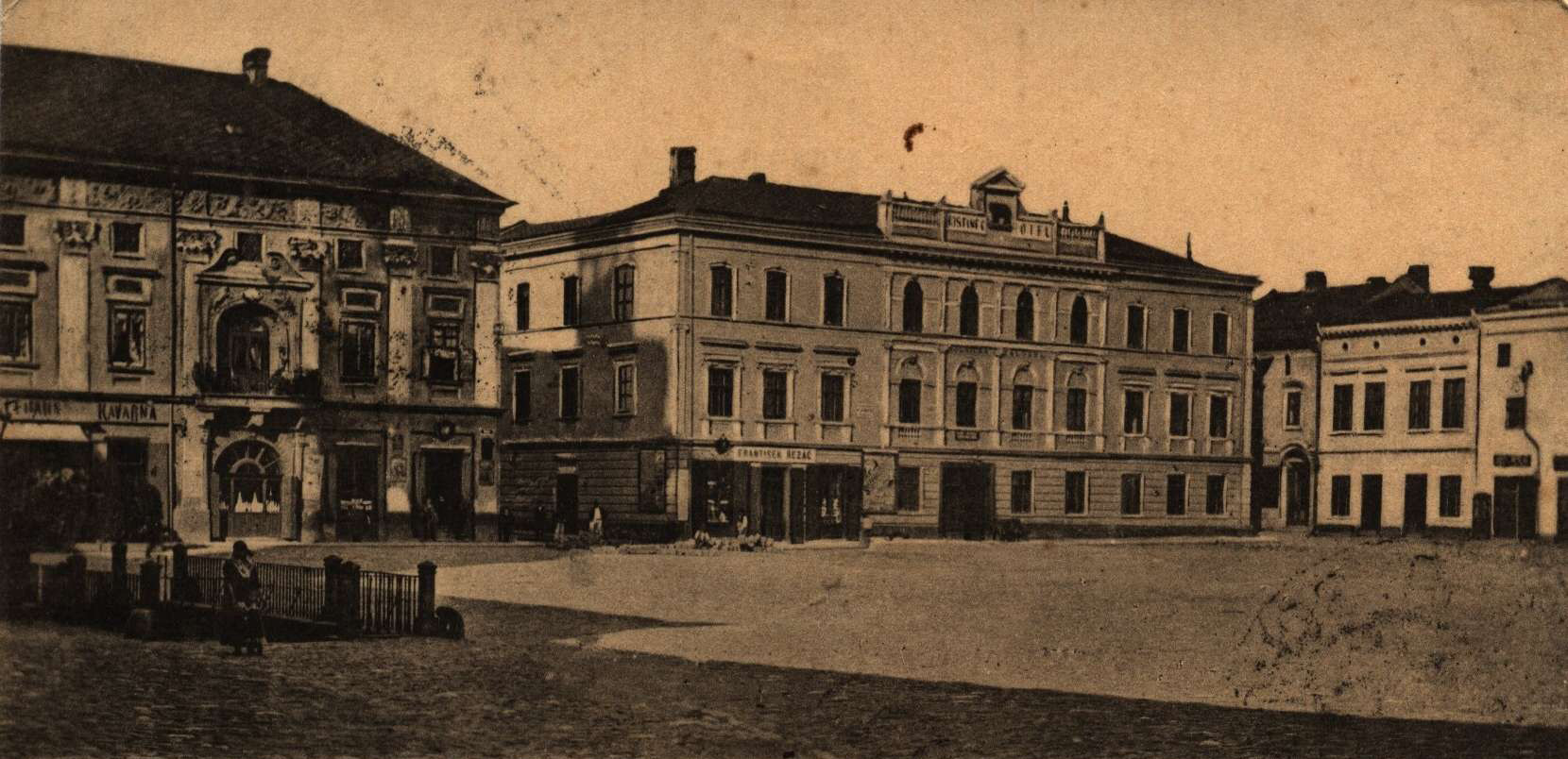 Přemysl Otakar Square in Litovel. Lang's House on the left and a savings bank in the centre. View from the south-west.